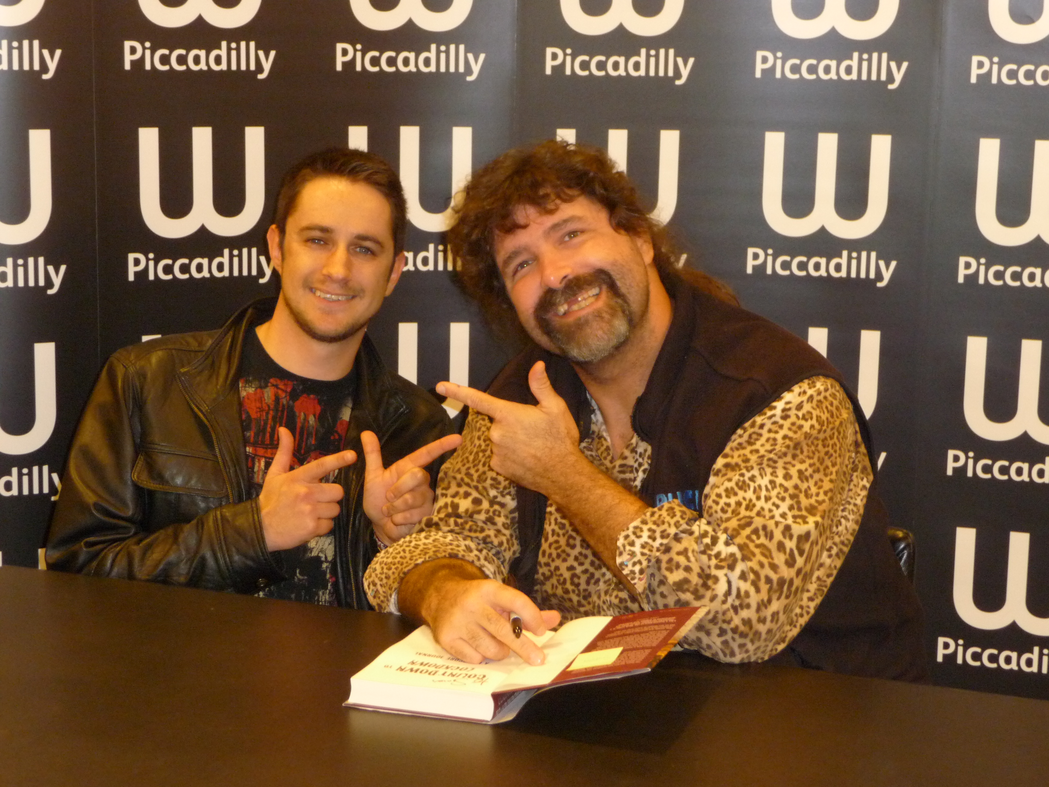 Meeting wrestling legend Mick Foley, AKA Cactus Jack, Mankind and Dude Love, what a gentleman and all round funny guy !